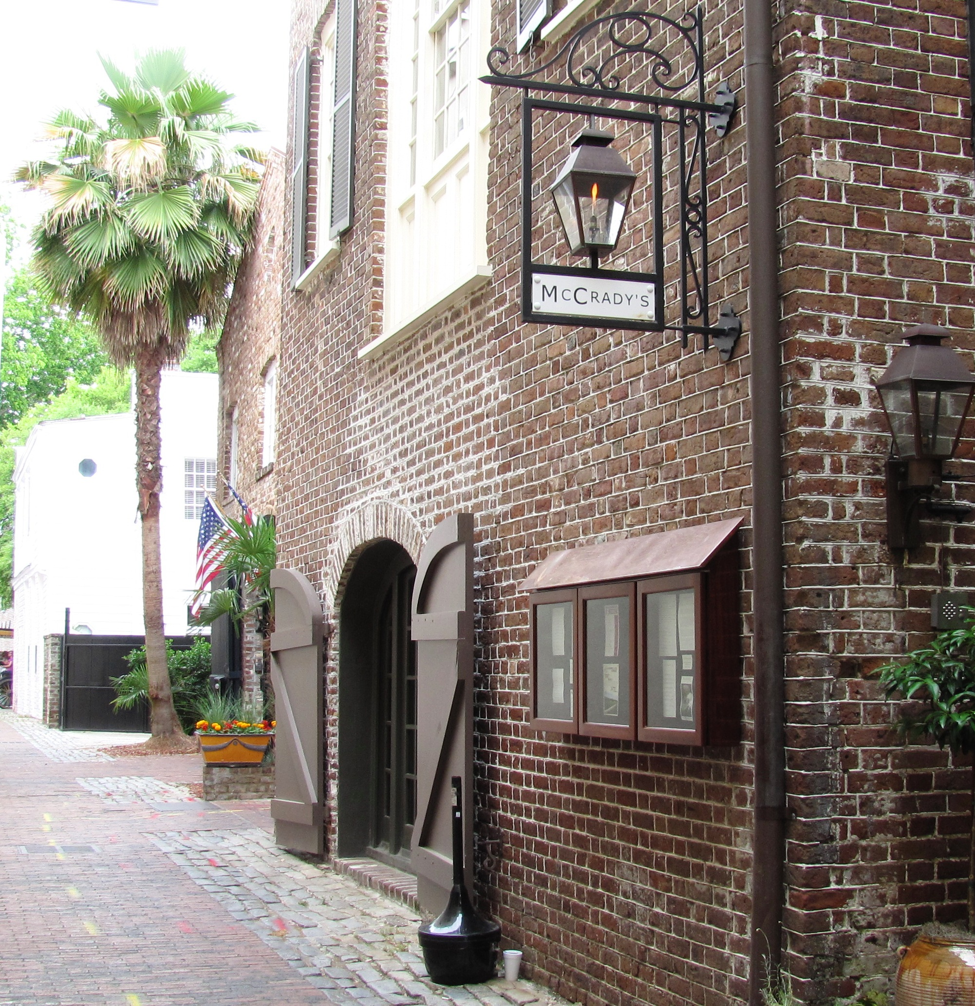 Entrance to McCrady's Tavern in Unity Alley in Charleston, South Carolina, USA.